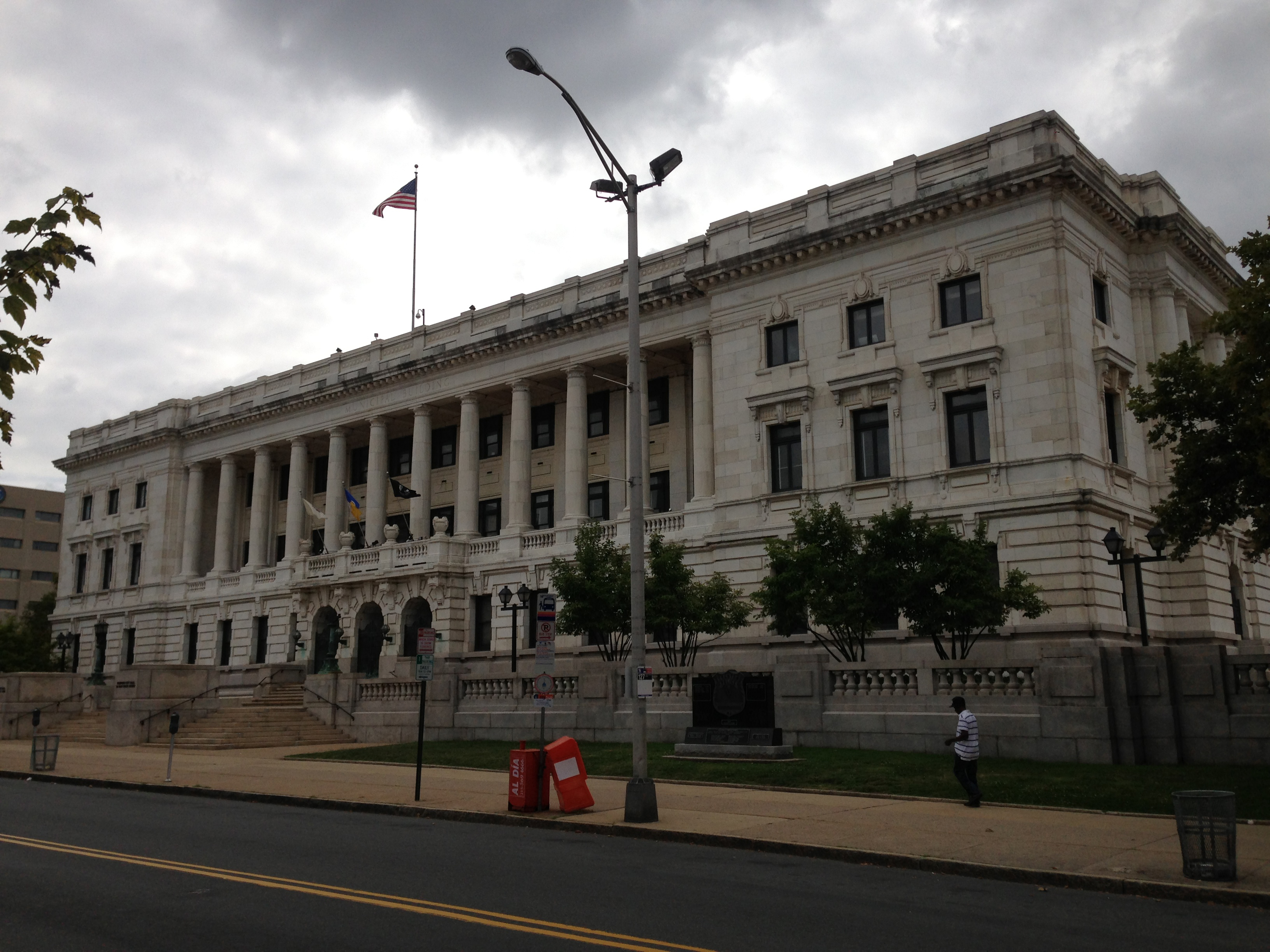 View of Trenton City Hall in Trenton, New Jersey from the northwest